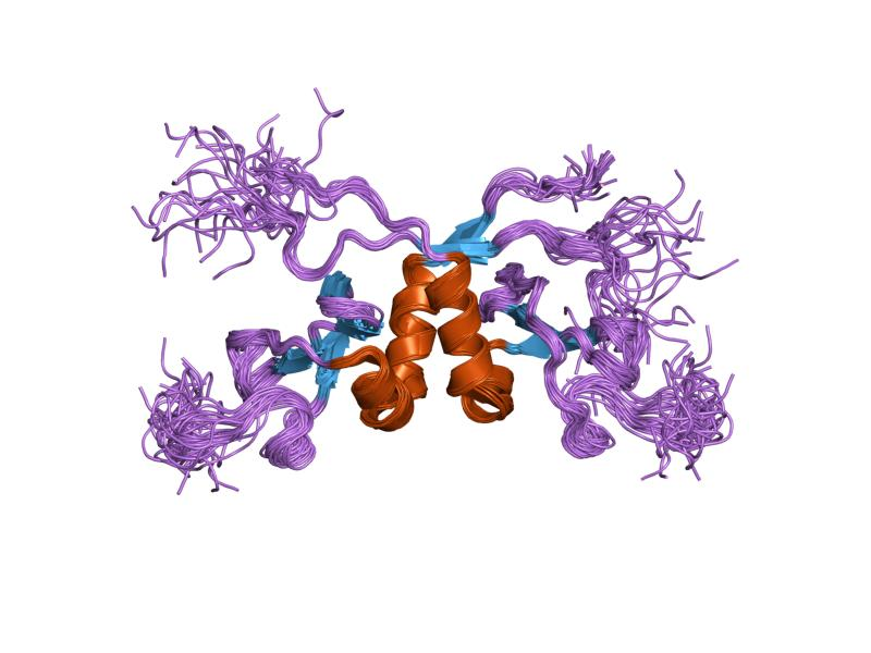 Cartoon representation of the molecular structure of protein registered with 1s4z code.